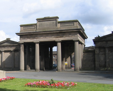 Photograph, cropped by me